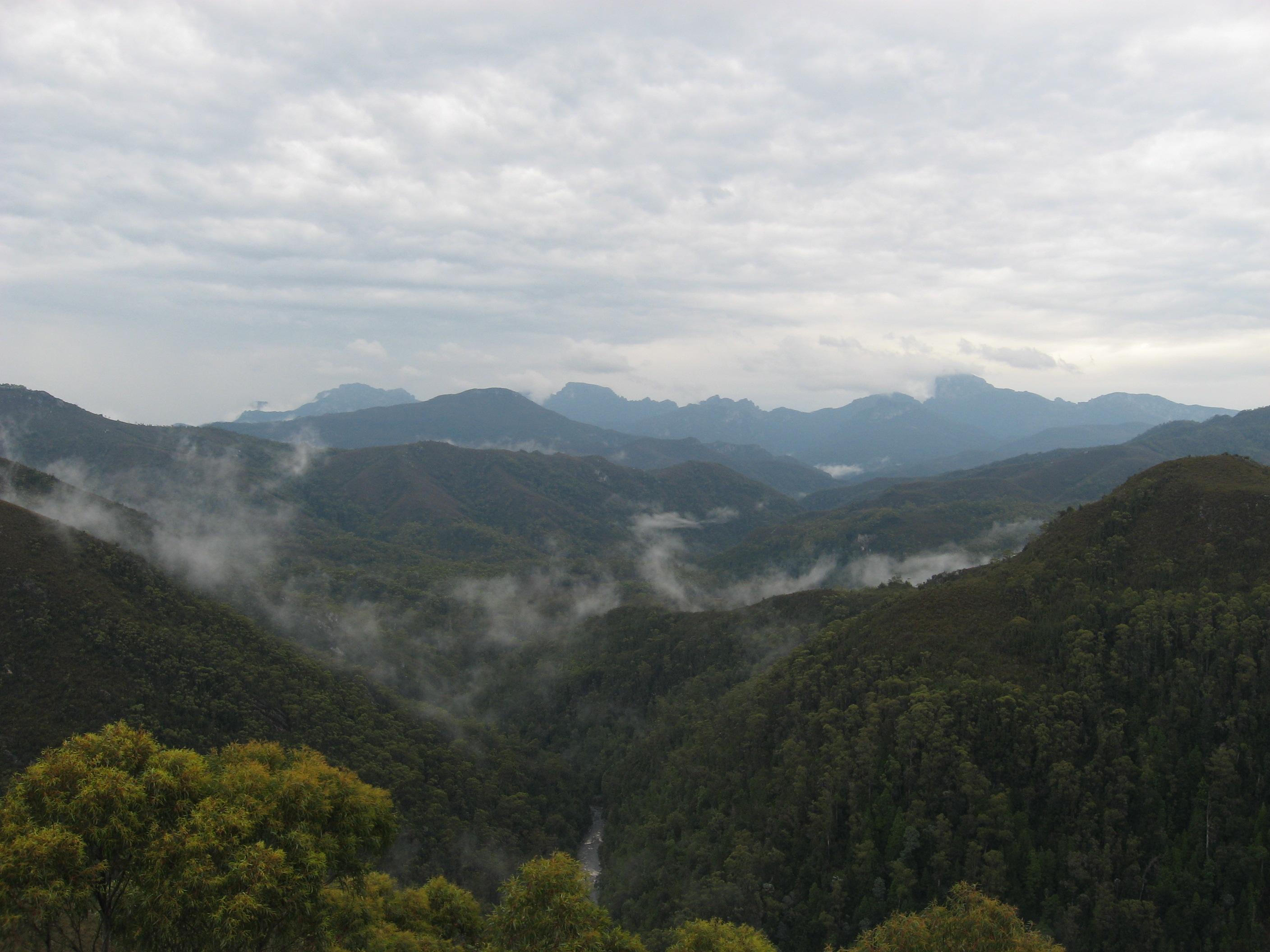 View over Southwest National Park (Tasmania) from Scott's Peak Rd